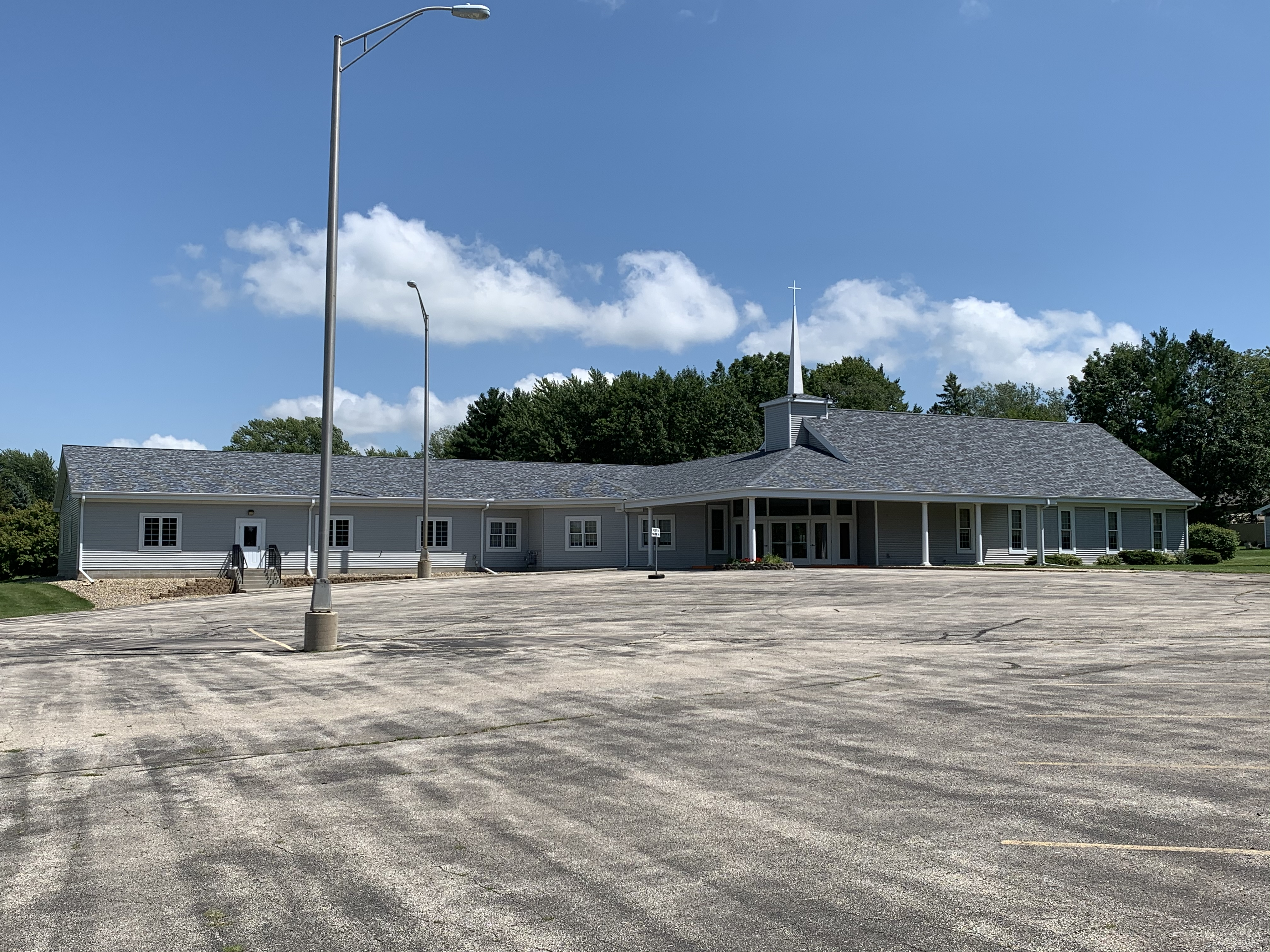 This image is a picture of Our Savior Lutheran Church in Kasson, MN.